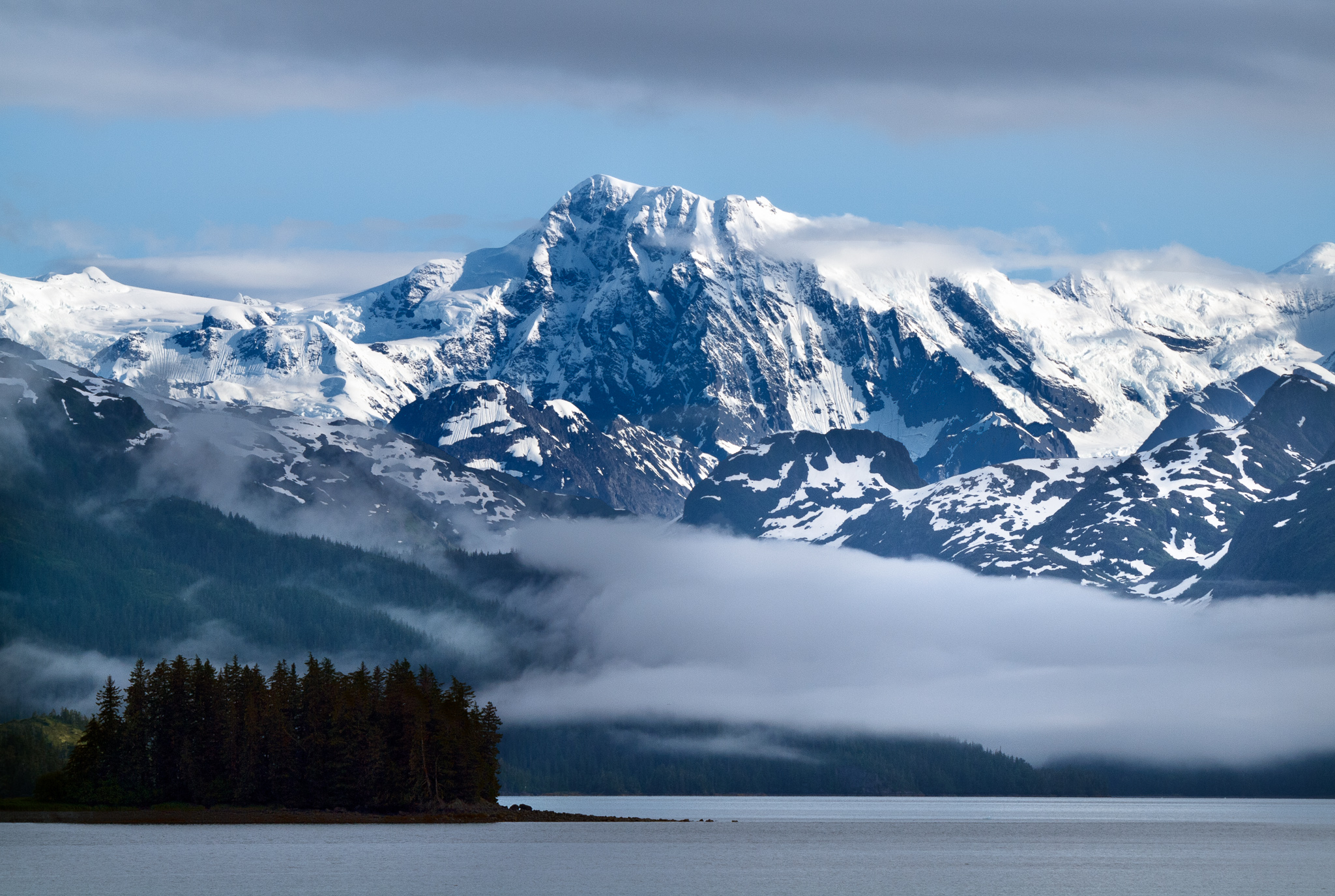 Columbia Peak of Chugach Mountains. Taken at Latitude/Longitude:60.909069/-147.248908. Alaska, United States